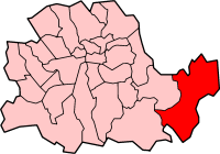 Map of the Metropolitan borough of Woolwich, former County of London.